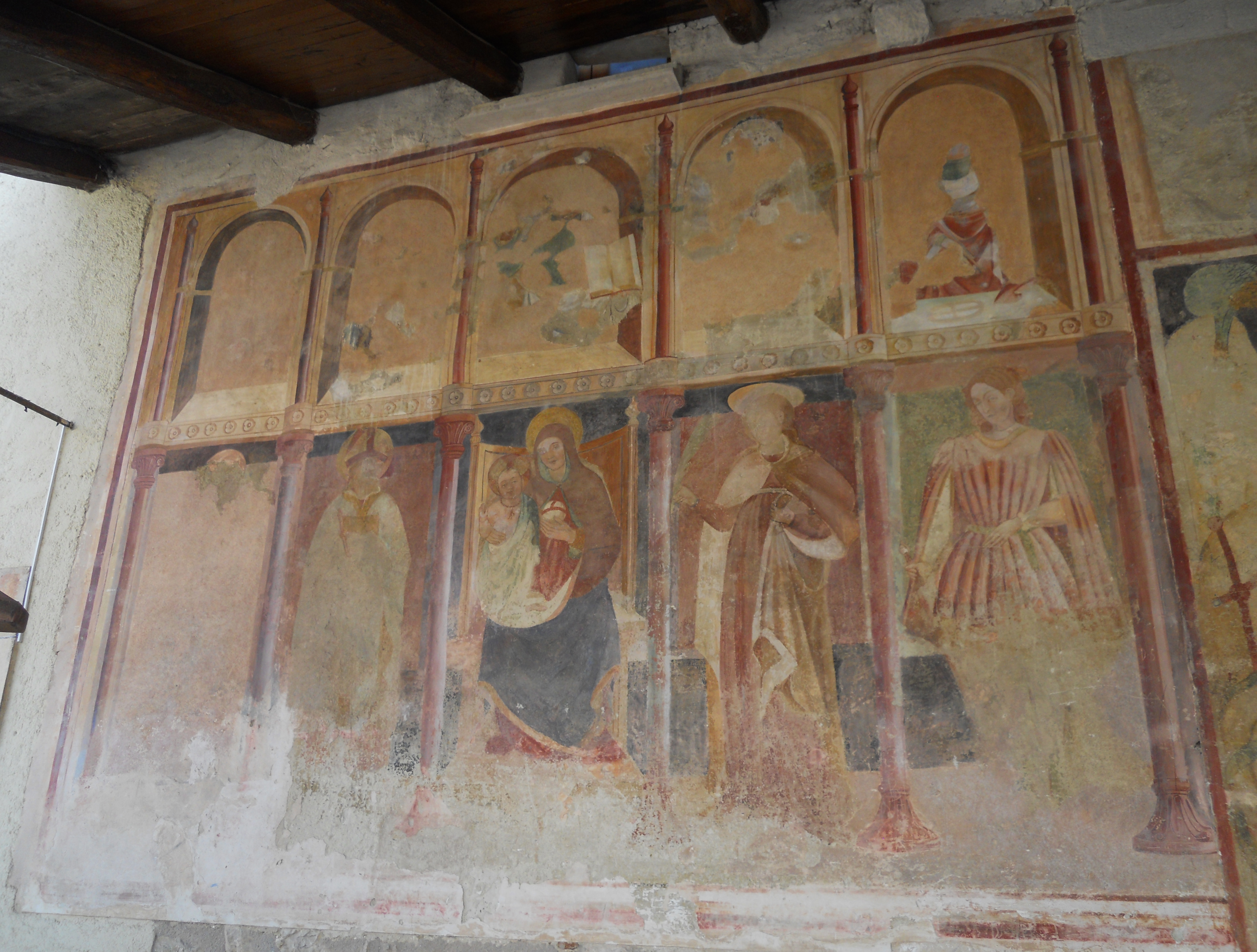 Saint Panfilo church, Villagrande (municipality of Tornimparte, Abruzzo, Italy) - First fresco, painted by Saturnino Gatti between 1490 and 1494